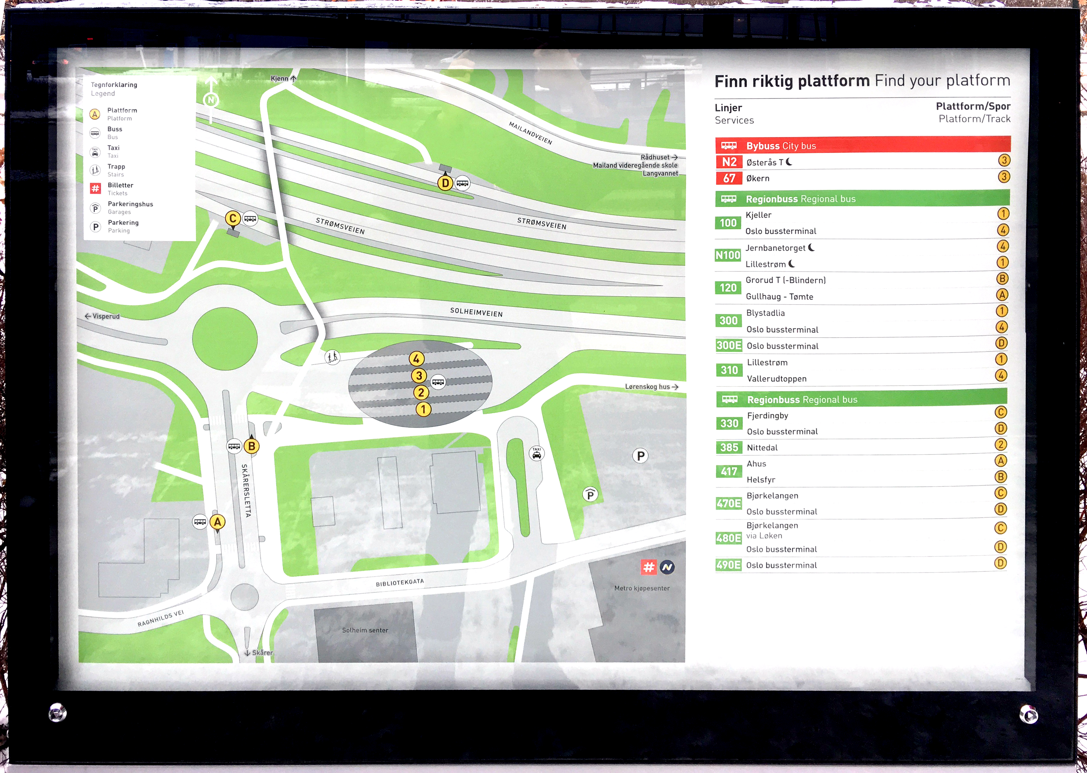 Map and information board of bus lines and public transport going from Strømsveien, Solheimveien, and Skårersletta in Lørenskog, Norway (Corrected, cropped version of photo 2017-11-30)